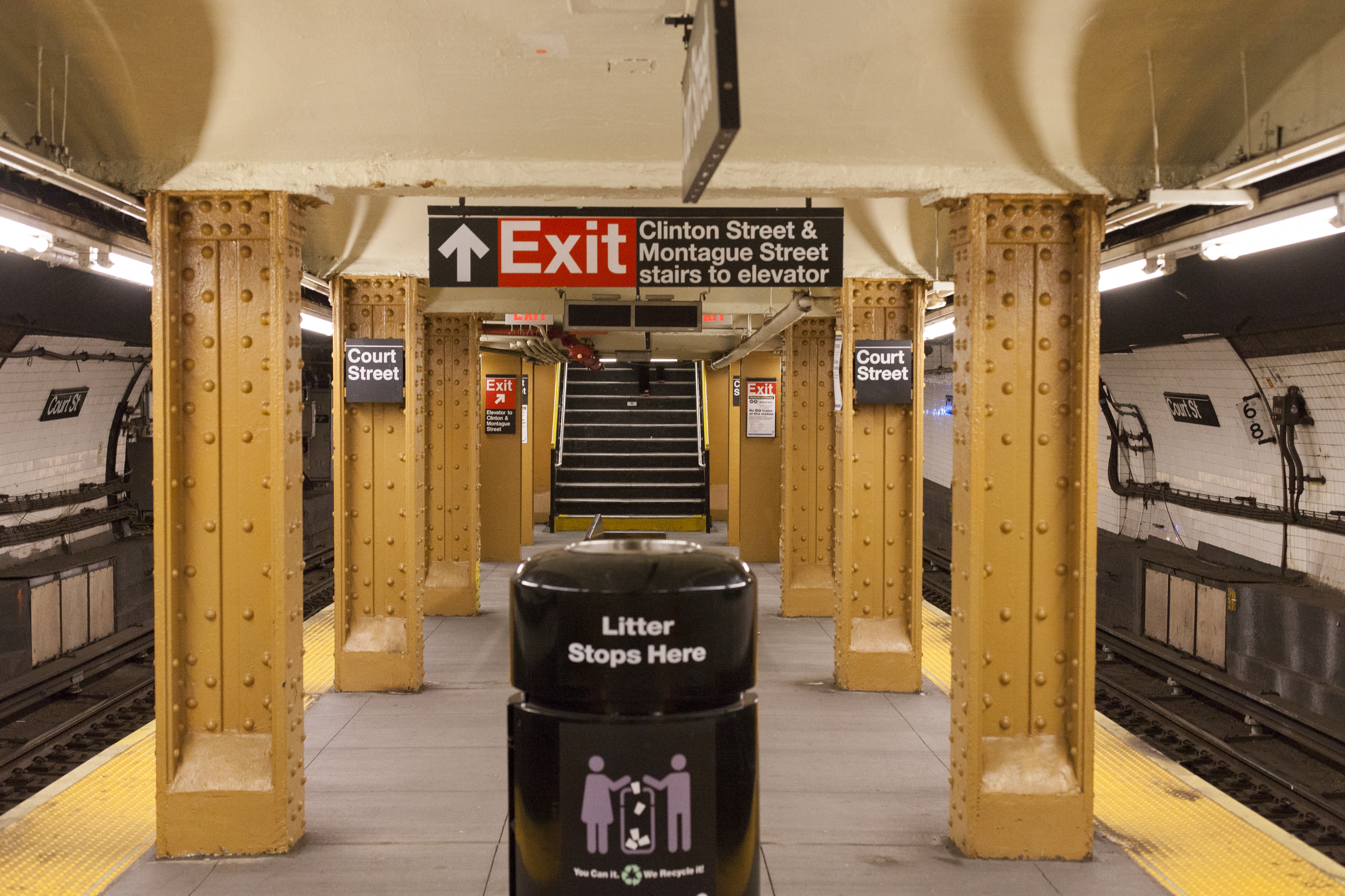 Court Street